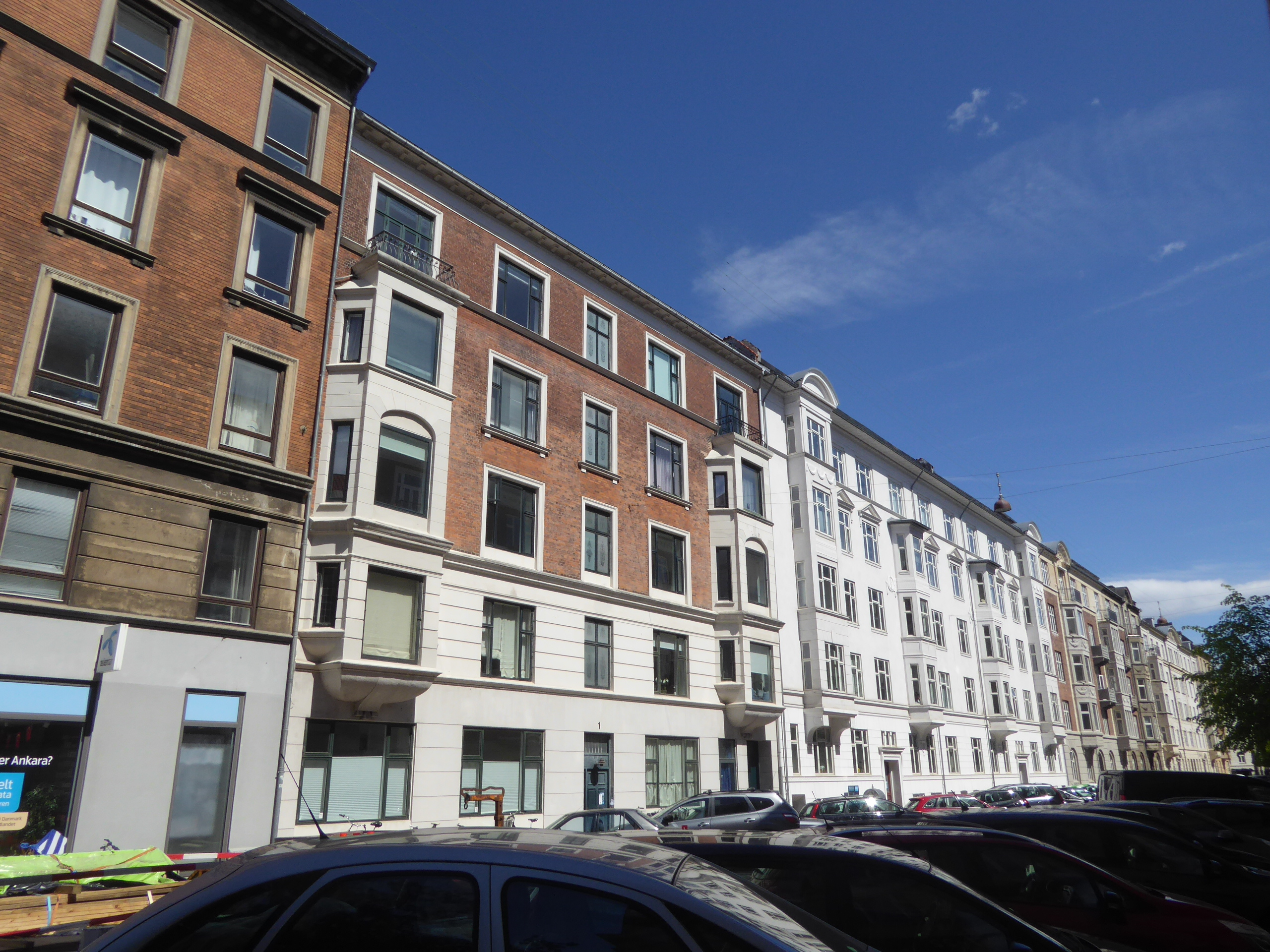 Apartment buildings at J.E. Ohlsens Gade in Østerbro in Copenhagen